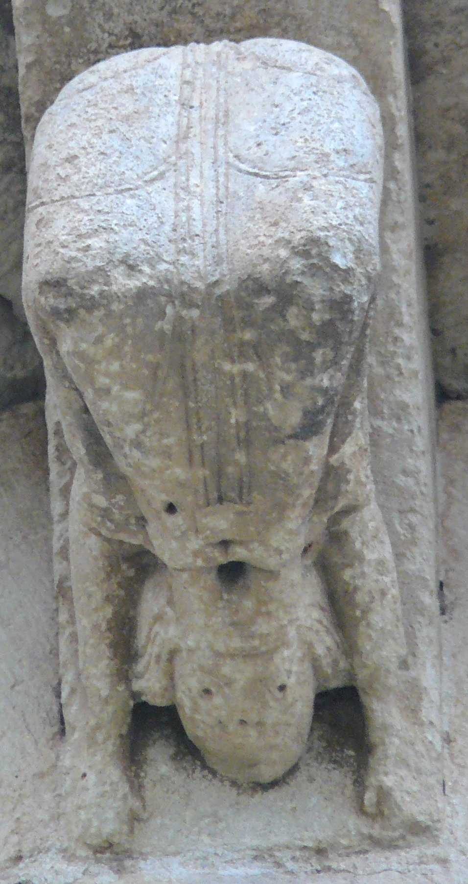 Medieval contortionist in a corbel of the church of San Miguel, Fuentidueña, province of Segovia (Spain).